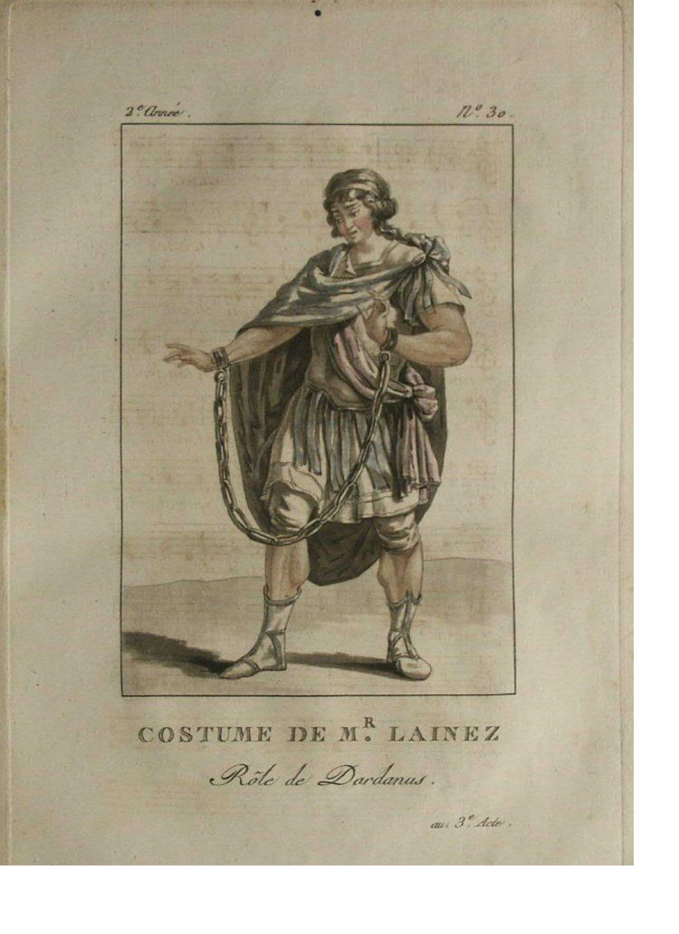 Étienne Lainez, leading tenor of the Paris Académie Royale de Musique, in the title role of the opera Dardanus by Antonio Sacchini (premiere: Versailles 18 September 1784)